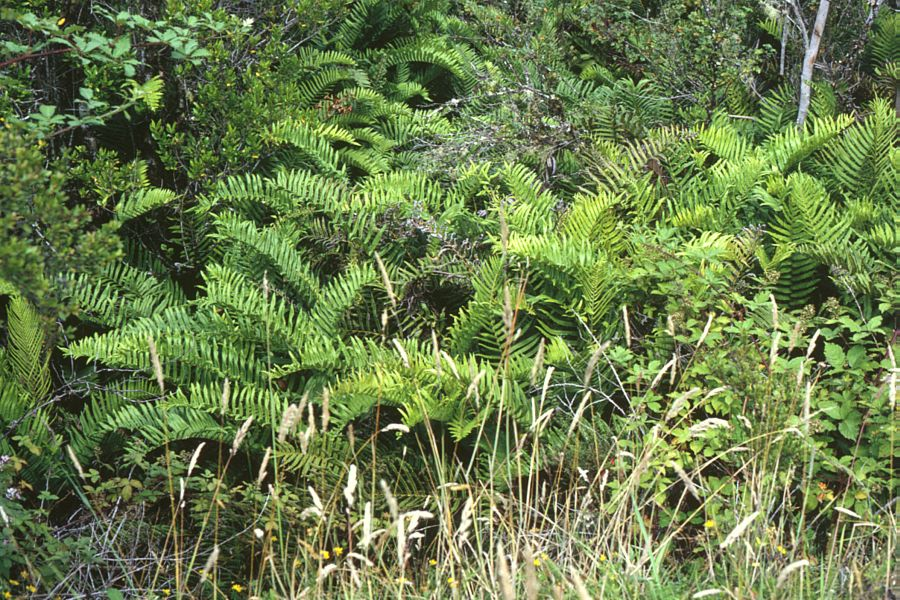 Blechnum cordatum (syn. B. chilense), Rippenfarngewächse (Blechnaceae) - Chile, ca. 15 km NE Pargua (Prov. de Llanquihue)